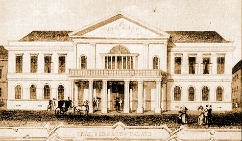 Forgac Palace Kosice